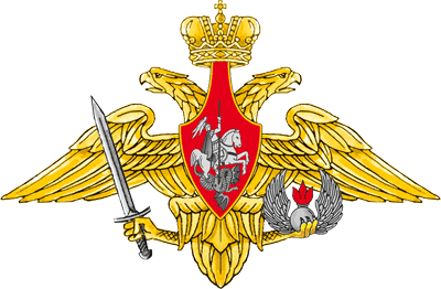 medium emblem of the Sukhoputnjye vojska Rossijskoj Federatsii (Воздушно-десантные войска Российской Федерации), the Ground Forces of the Russian Federation.